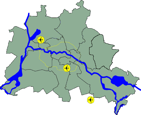 Map of Berlin with borders of the different boroughs